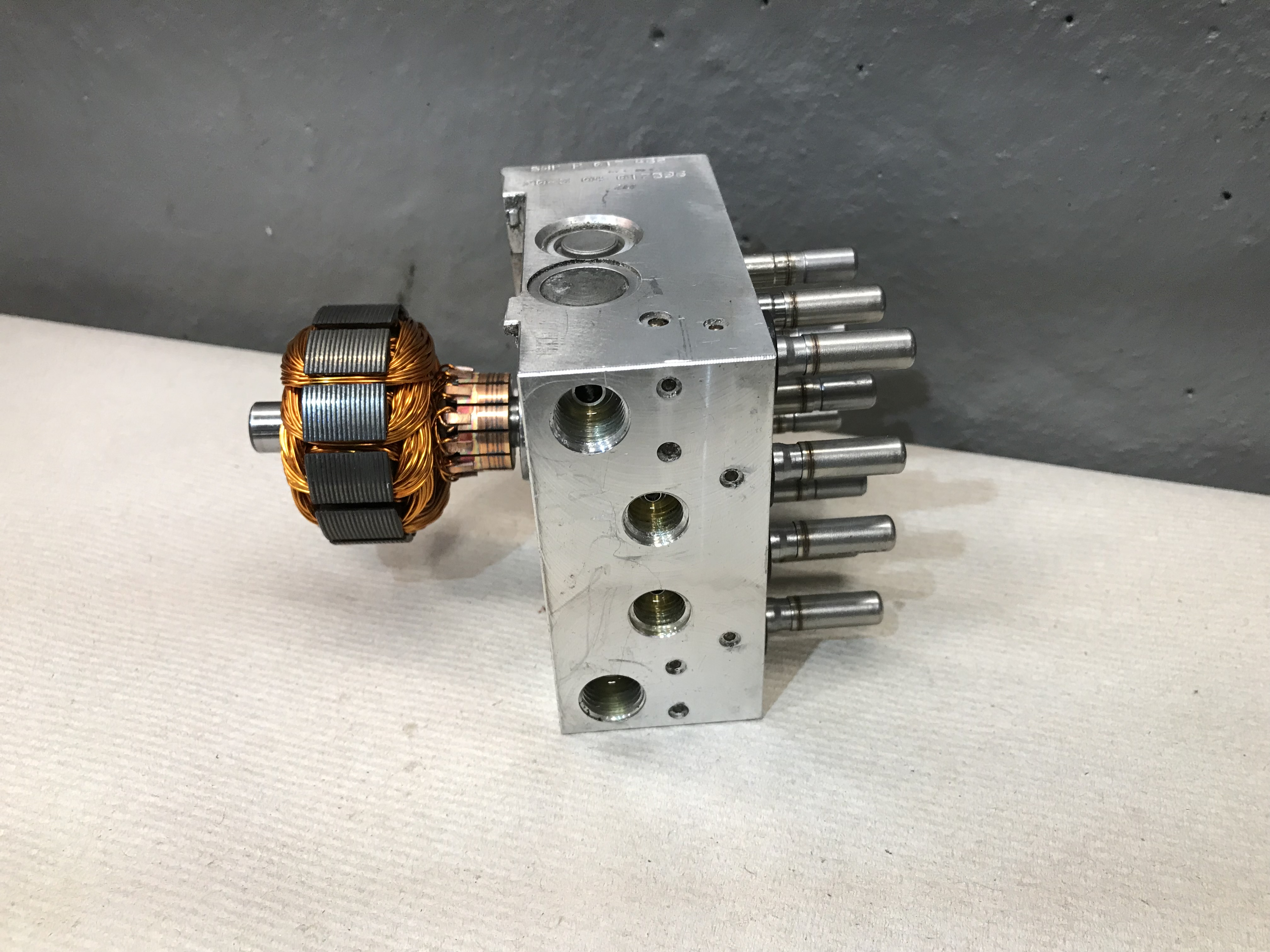 Photo of an ABS hydraulic control unit